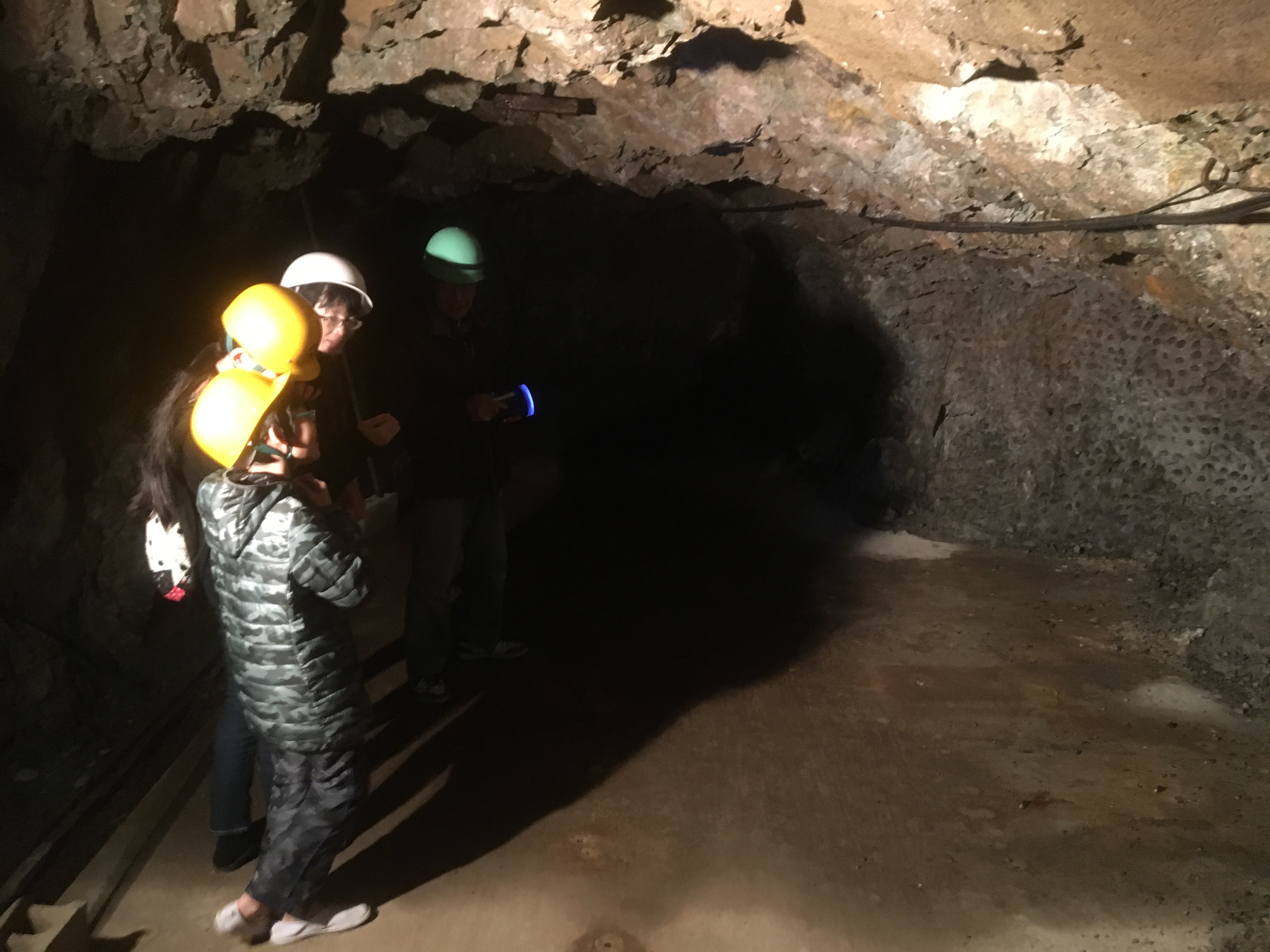 yanahara-mine-drift yanahara-mine (FeS) 12-2016 Okayama-pref JAPAN